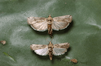 Cactoblastis cactorum Adult female (above) and adult male (below)